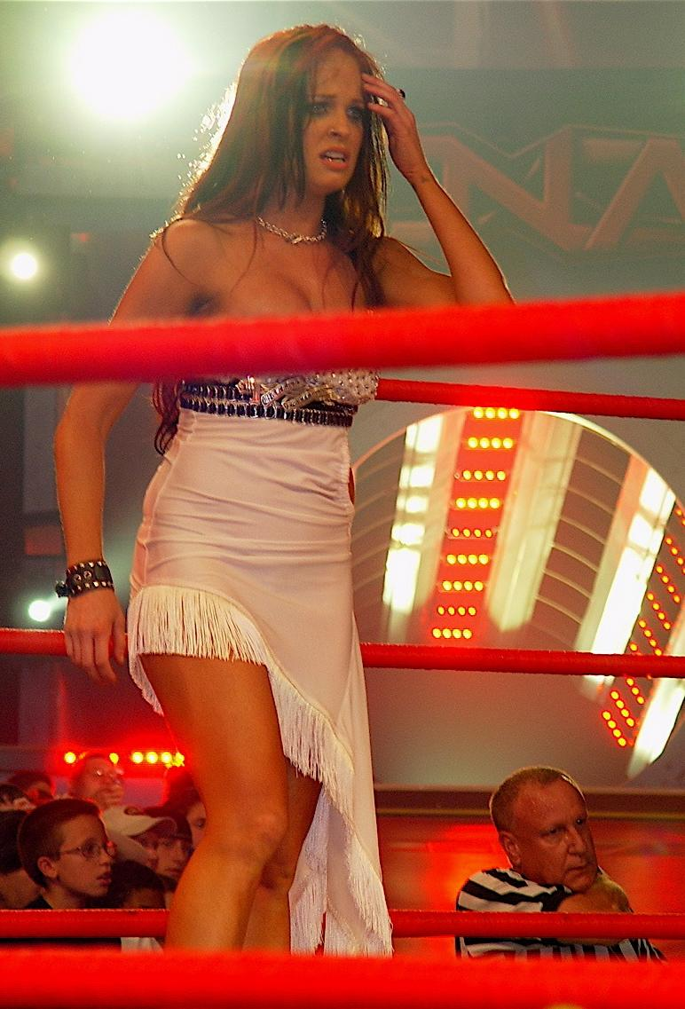 Christy Hemme at a TNA Impact taping in Orlando Florida Photo by Rob Beukema